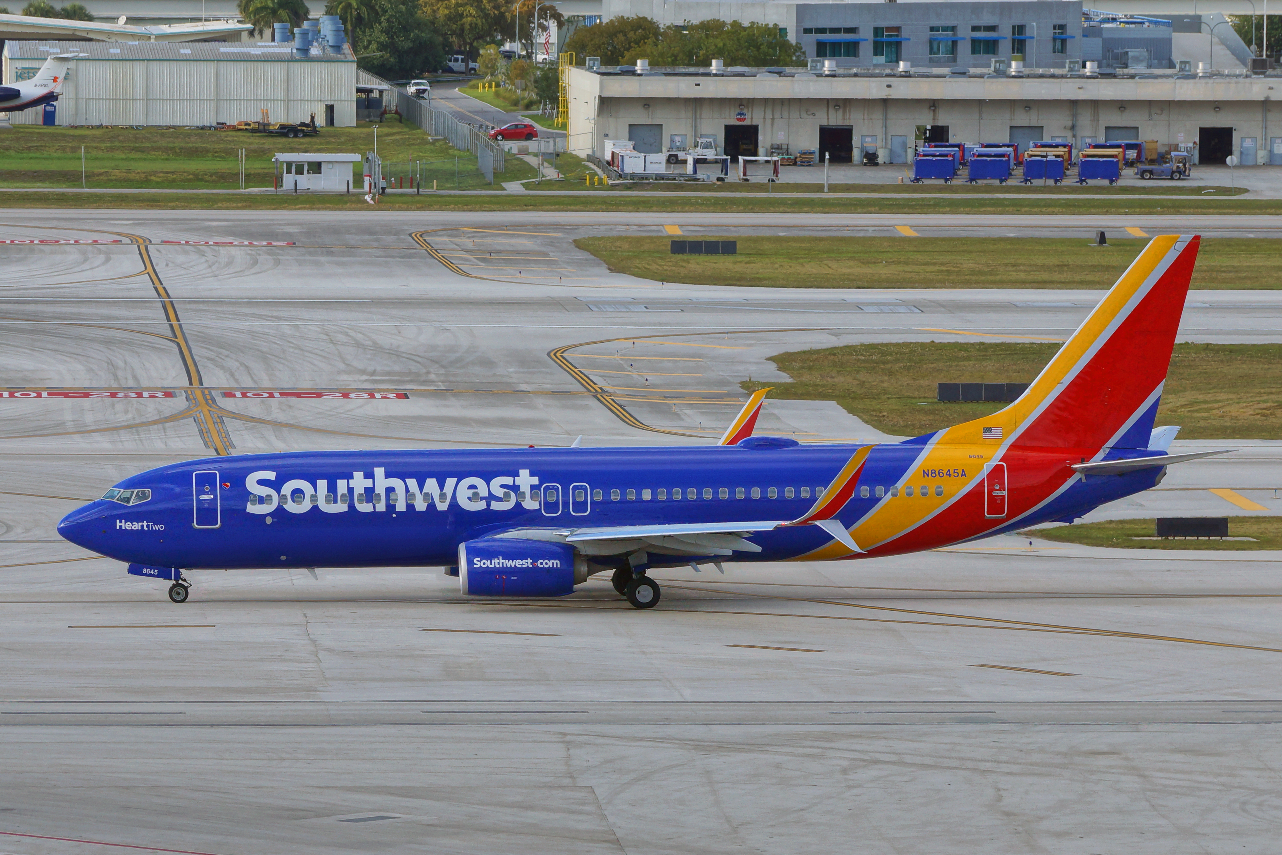 SW N8645A Heart Two FLL JTPI 8x12 558